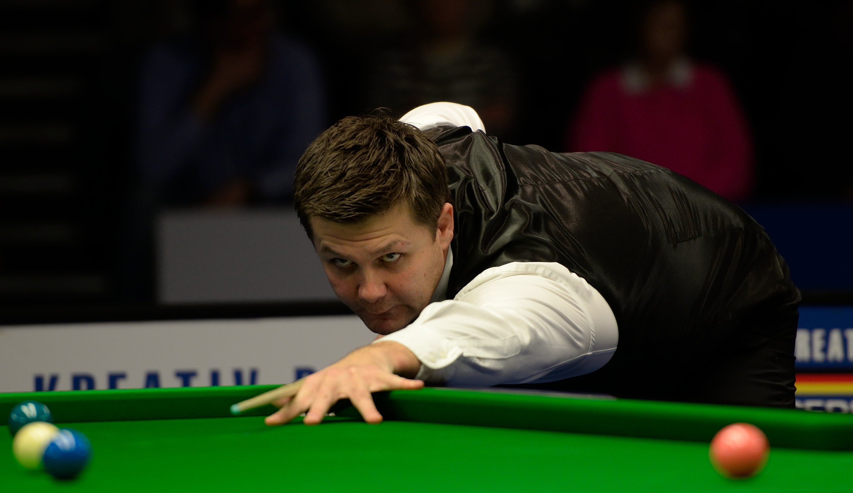 Picture taken in Berlin during the Snooker German Masters in 2015. Ryan Day.